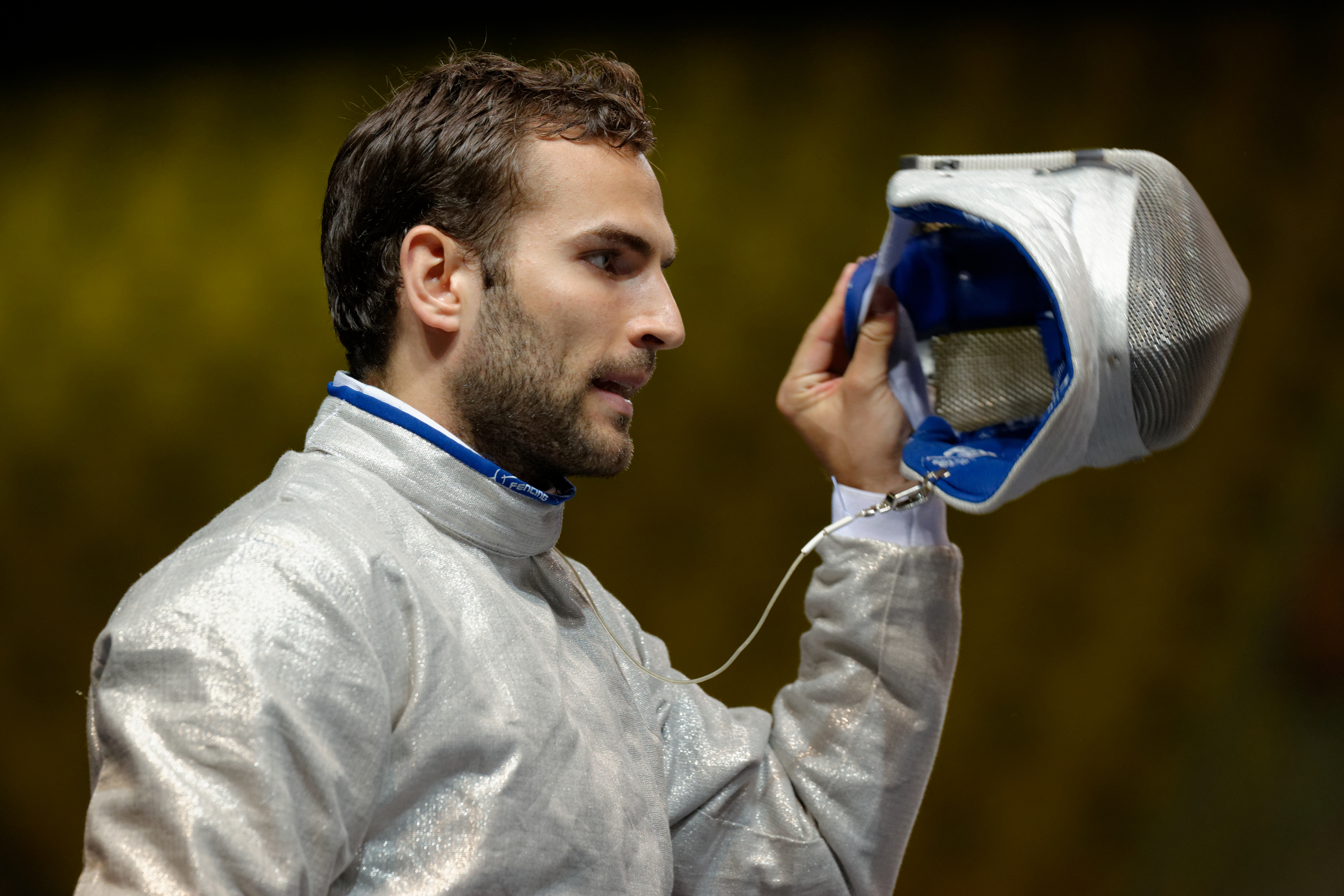 Áron Szilágyi of Hungary during the men's team sabre event at the European Fencing Championships at Rhénus Sport in Strasbourg on 14 June 2014.